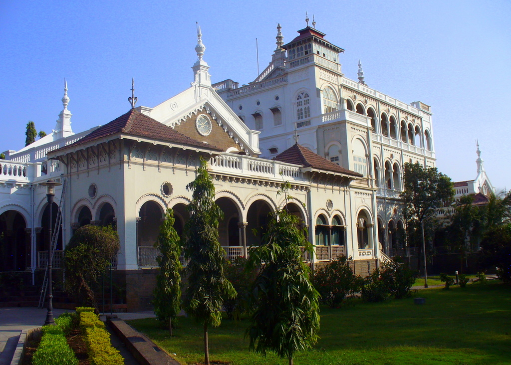 AgaKhan Palace in Pune. Kasturbha Gandhi, wife of Mahatma Gandhi, died here.